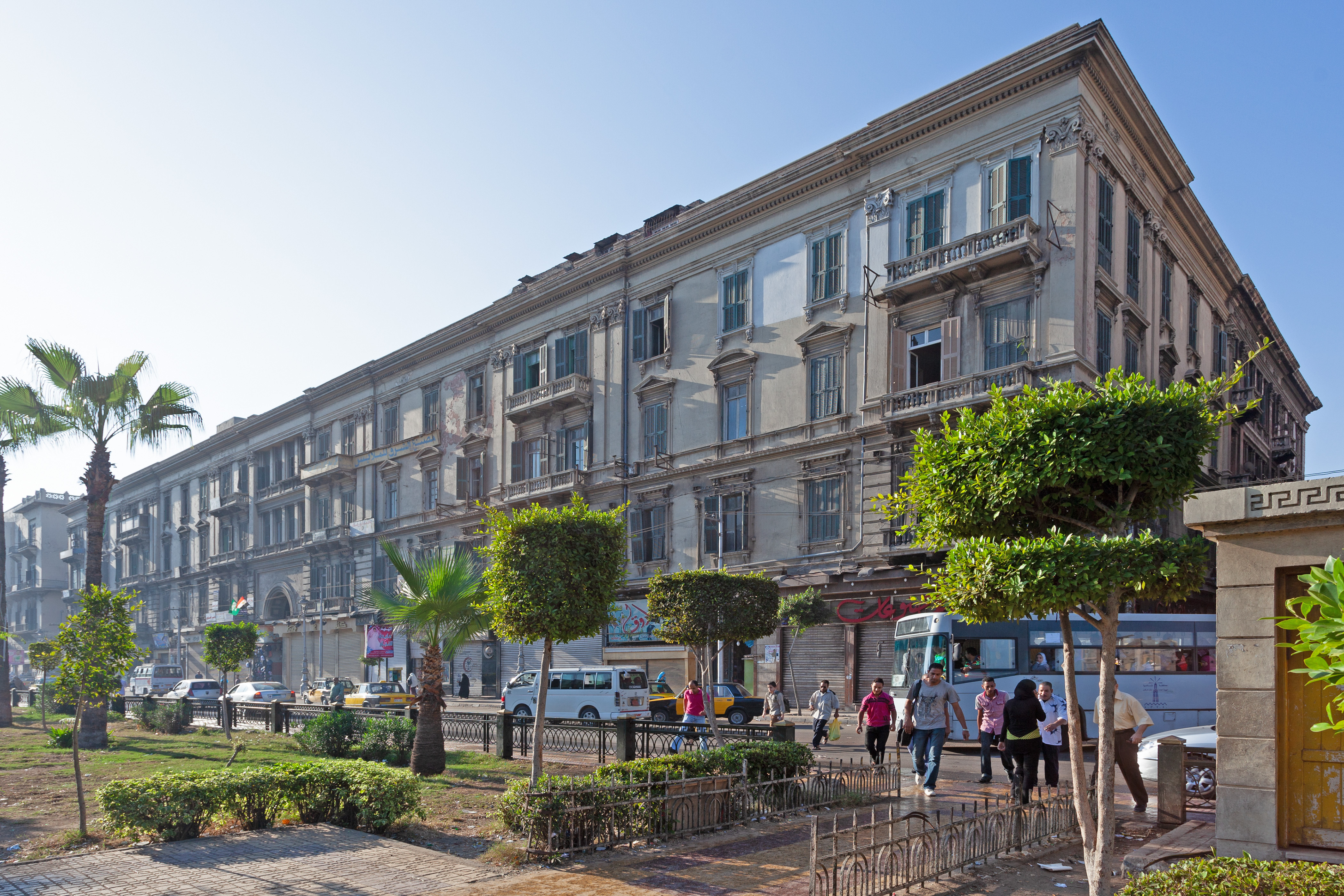 Façade of the Gallery Menasce, Tahrir square, Alexandria, Egypt